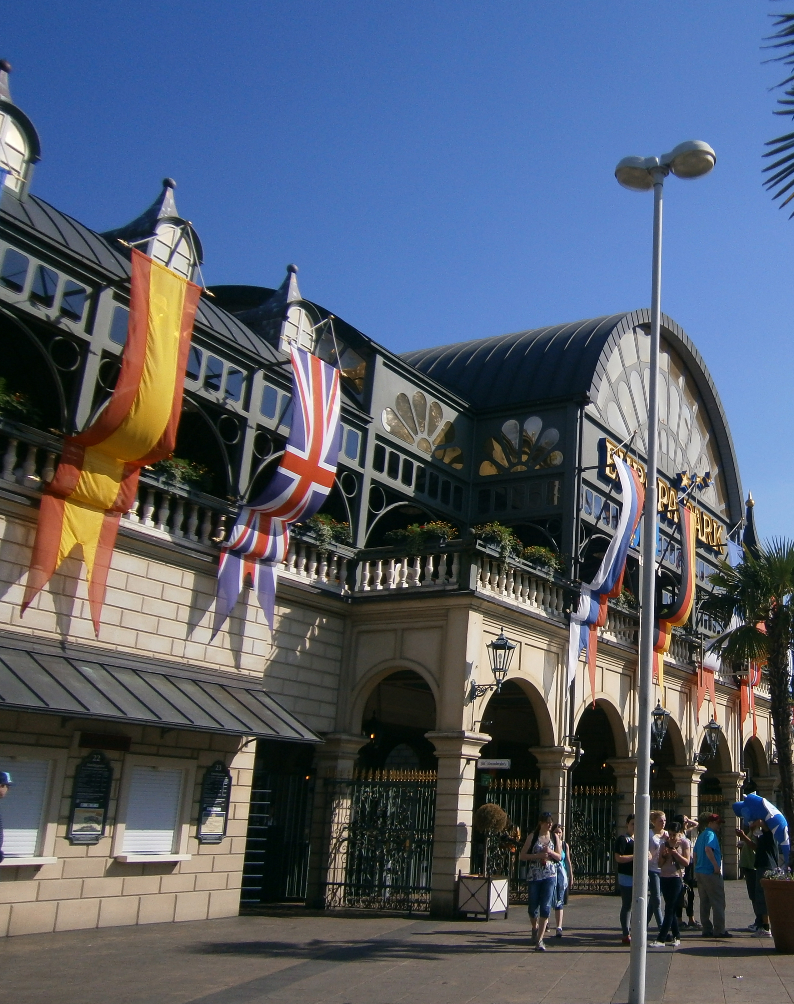 The main entrance in Europa-Park (Rust)